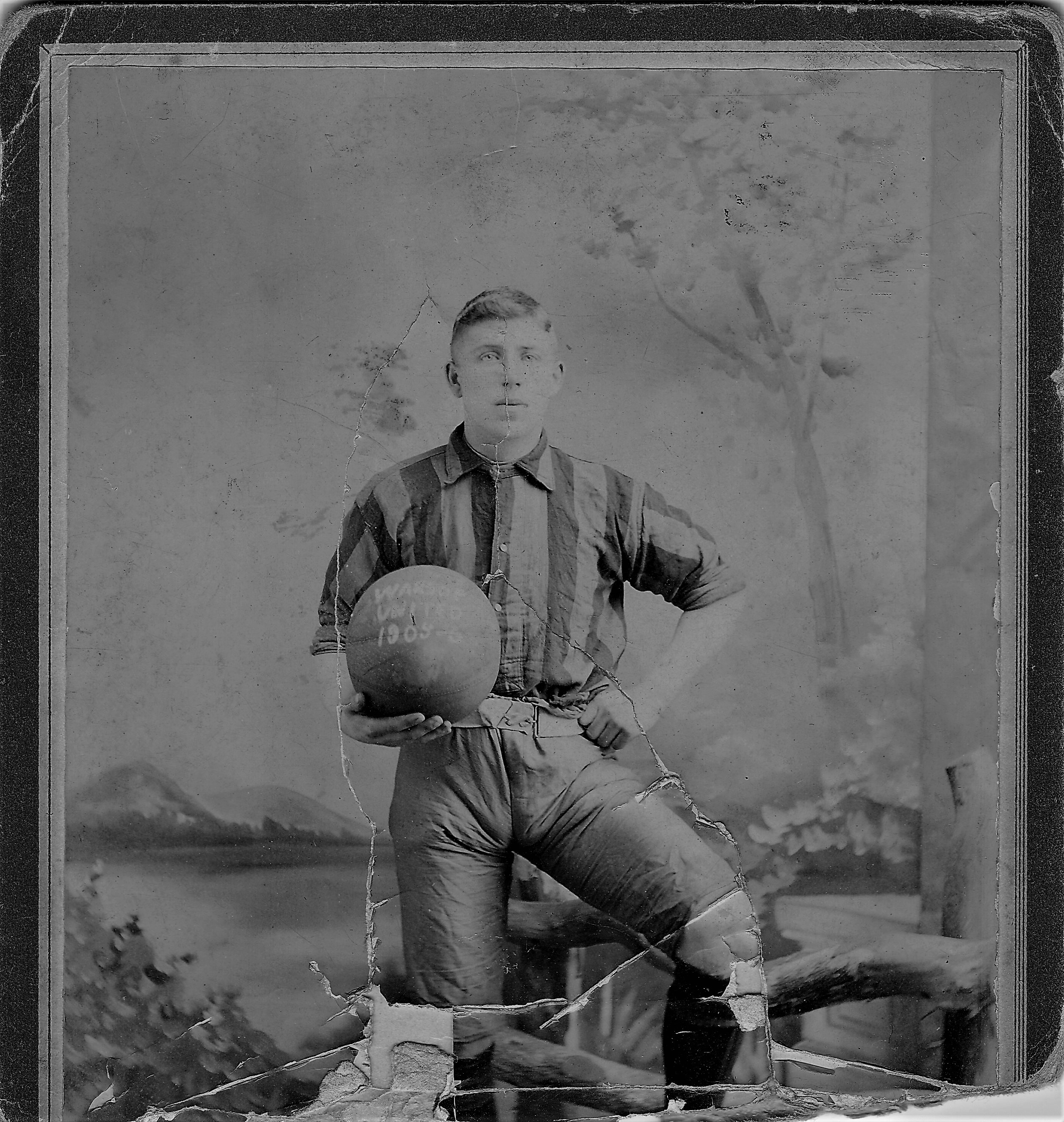 A scanned image of Walter Scott Tattersall, born 1888, in the kit of Warsop United Football Club for the 1905-6 season.